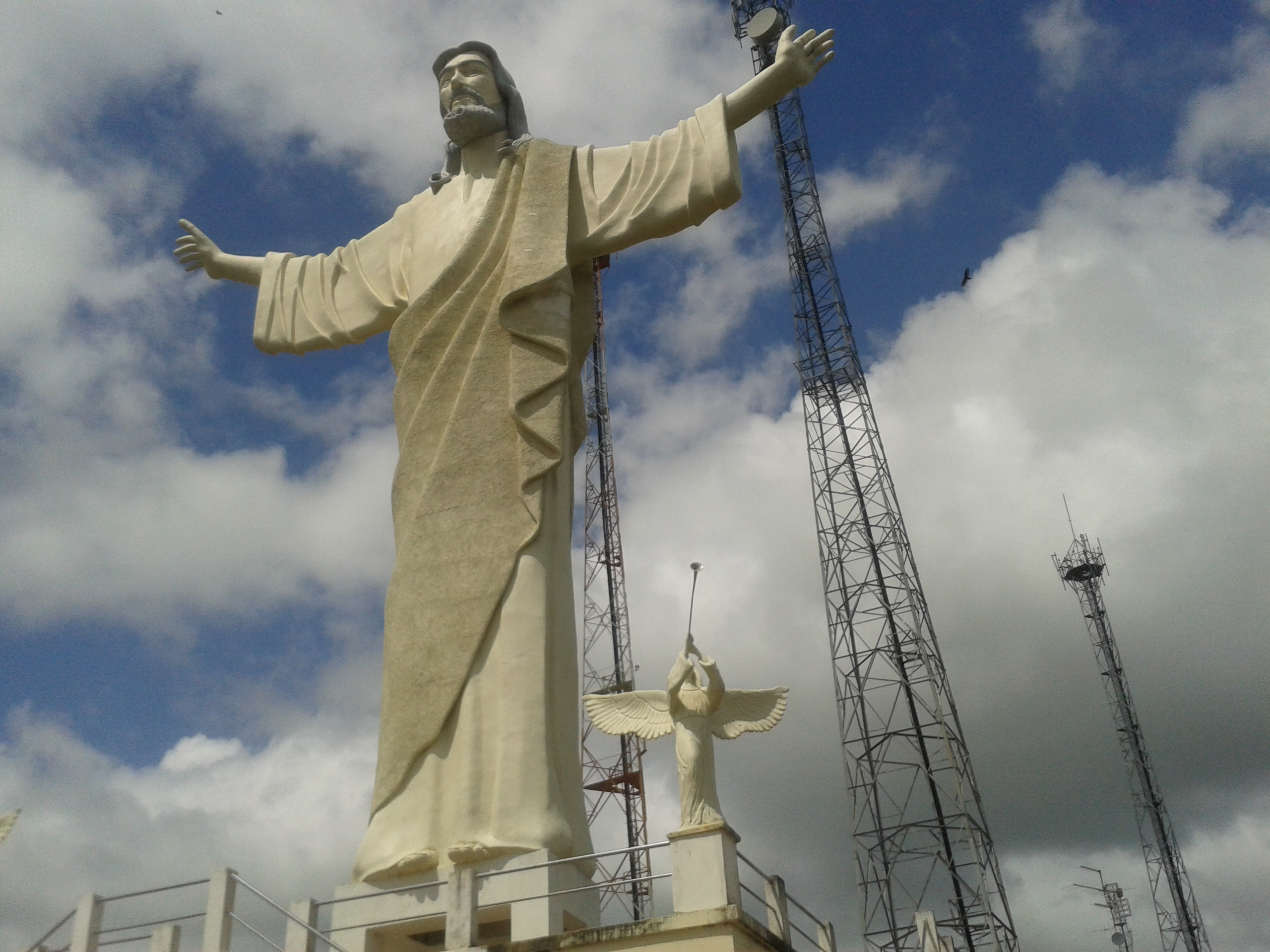 Statue of Christ Bom Jesus do Galho, Minas Gerais, Brasil.